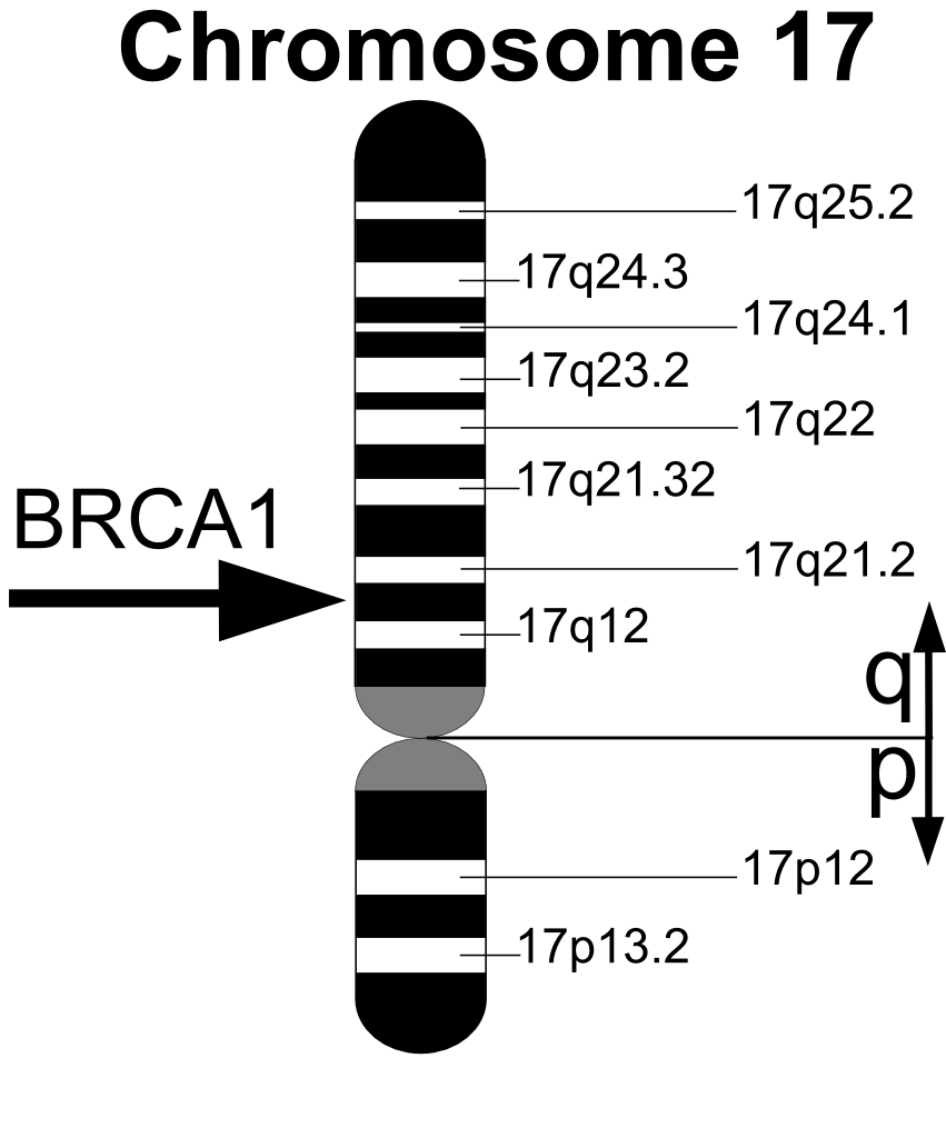 BRCA1-Gene located on chromosome 17. English version